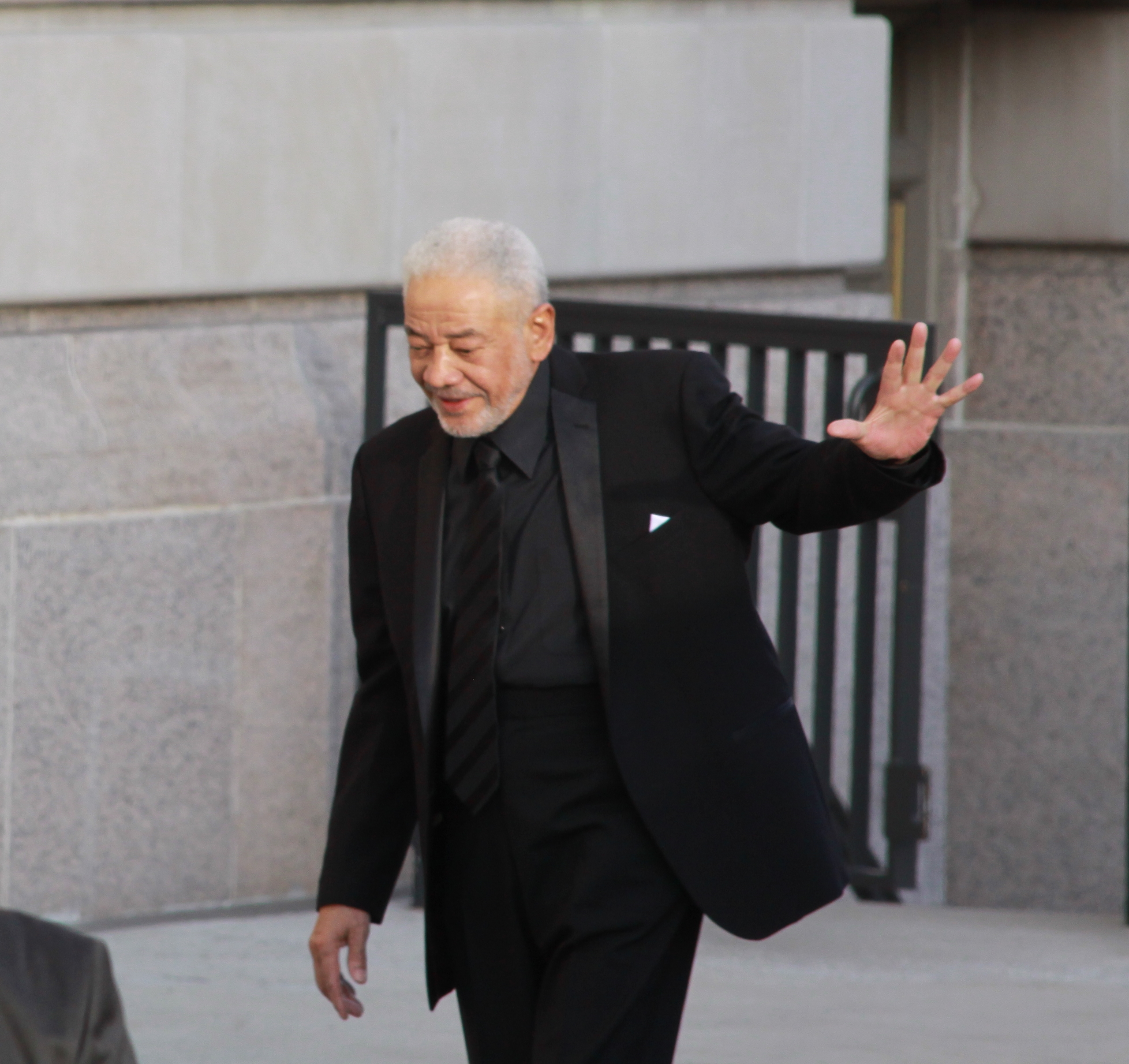 Bill Withers arrives at the Rock and Roll Hall of Fame Induction Ceremony